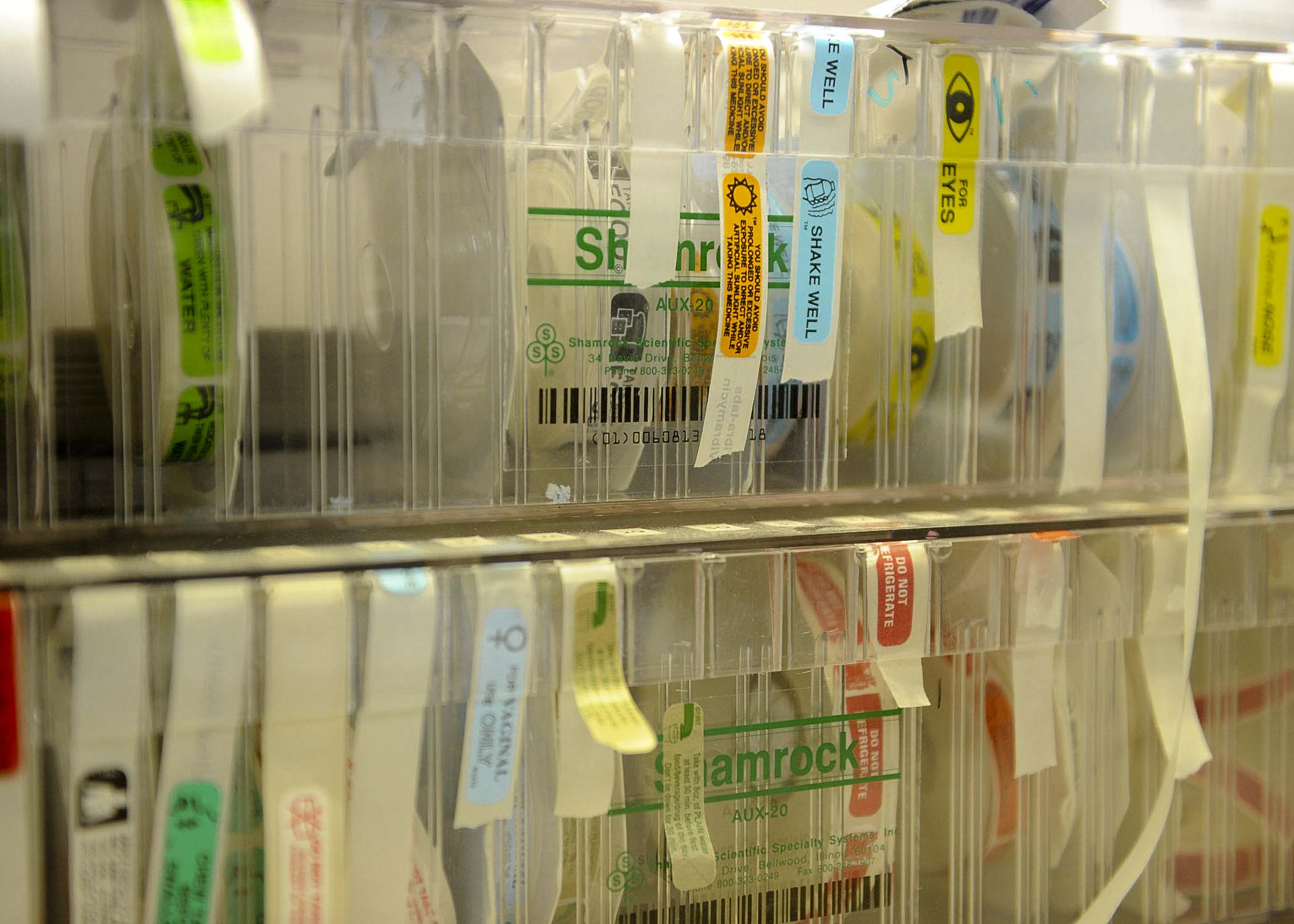 Auxiliary labels including: Drink with plenty of water You should avoid prolonged exposure to direct and/or artificial sunlight while taking this medicine Shake well For eyes For vaginal use only Take with 8 oz of PLAIN water at least 30 min before first food/beverage/drug of the day. Don't lie down for 30 mins Do not refrigerate And others that are illegible